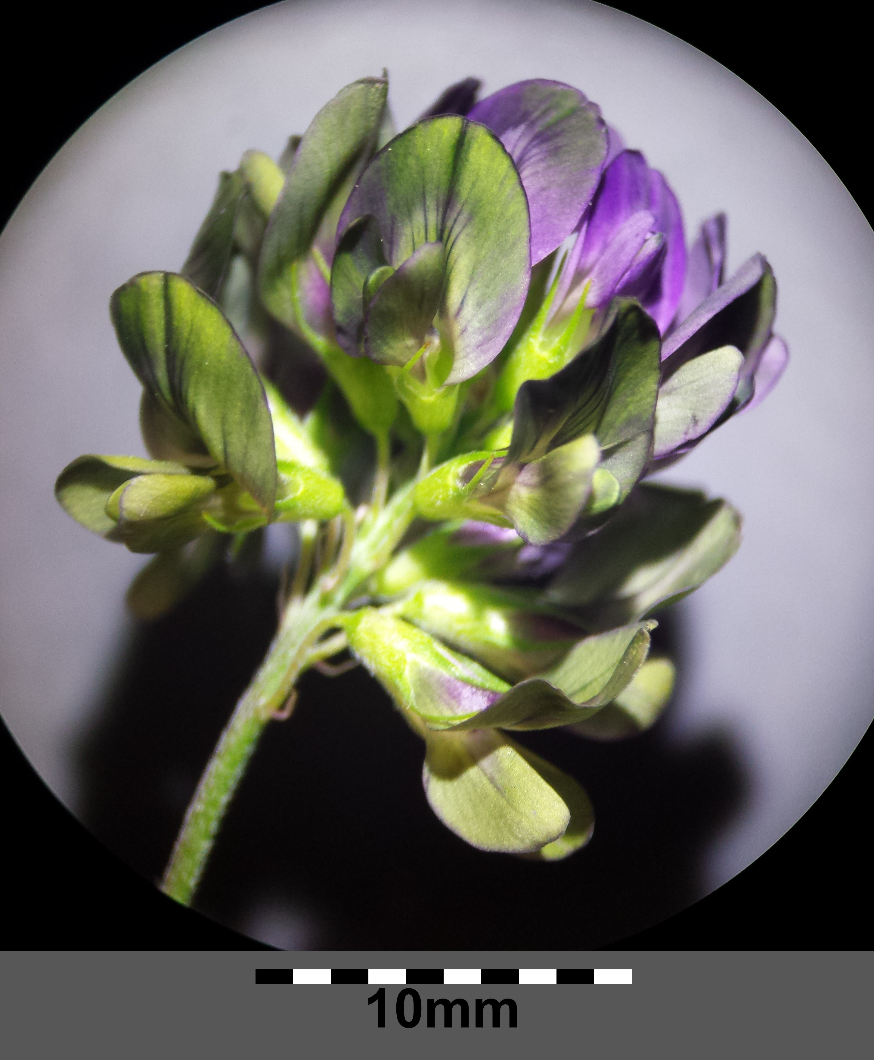 Inflorescence Taxonym: Medicago falcata × M. sativa ss Fischer et al. EfÖLS 2008 ISBN 978-3-85474-187-9 Location: Floridsdorf rail station, Vienna-Floridsdorf - ca. 160 m a.s.l. Habitat: ruderal area